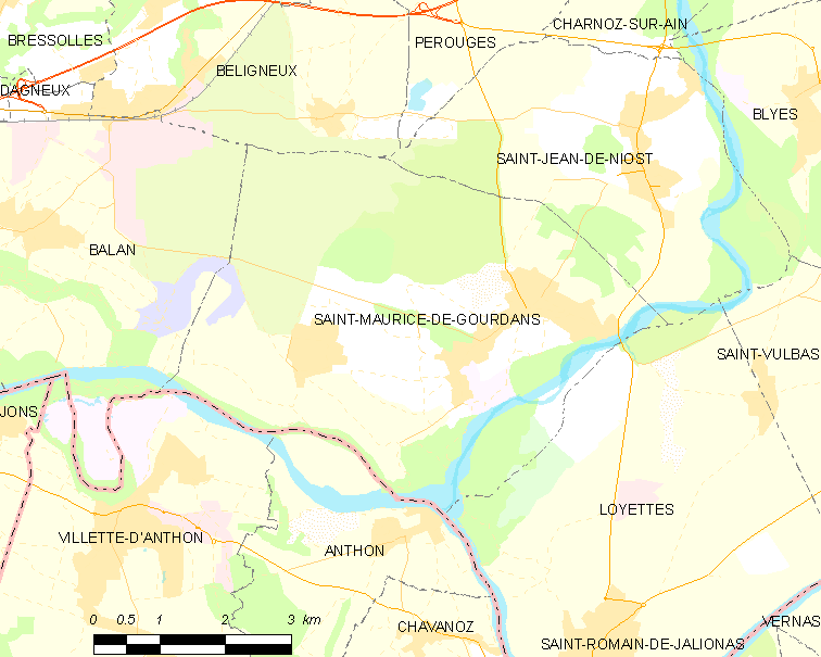 Map of French commune: Saint-Maurice-de-Gourdans Map commune FR insee code 01378.png